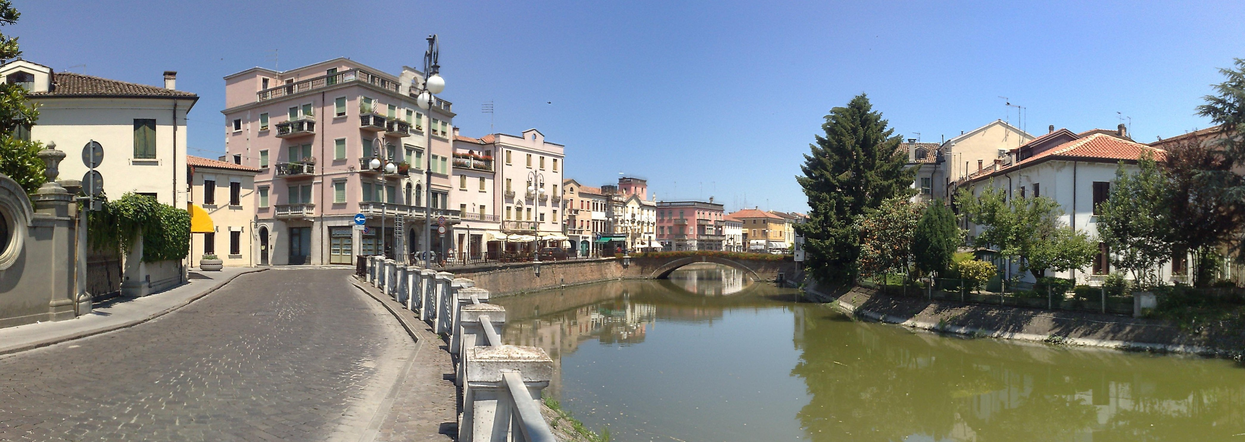 A view of the centre of Adria on a Saturday afternoon.